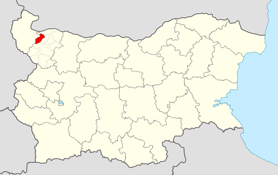 Location map of Brusartsi Municipality within Bulgaria and Montana Province. Equirectangular projection, N/S stretching 130 %. Geographic limits of the map: N: 44.4° N S: 41.1° N W: 22.1° E E: 28.9° E